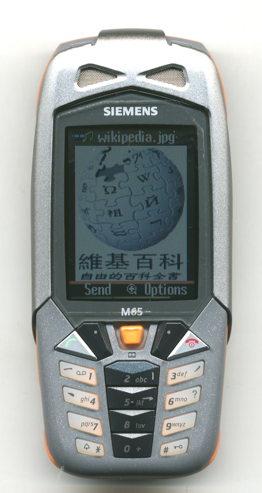 copyleft( CC-BY-SA ) but not include trade marks on screen and body.